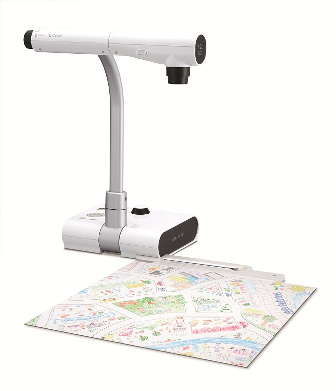 Visualiser ELMO Main Model for school 2010